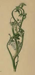 Stainton’s Natural History of the Tineina (1855–1873): Agonopterix rutana a sprig of Ruta chalepensis attacked by larva